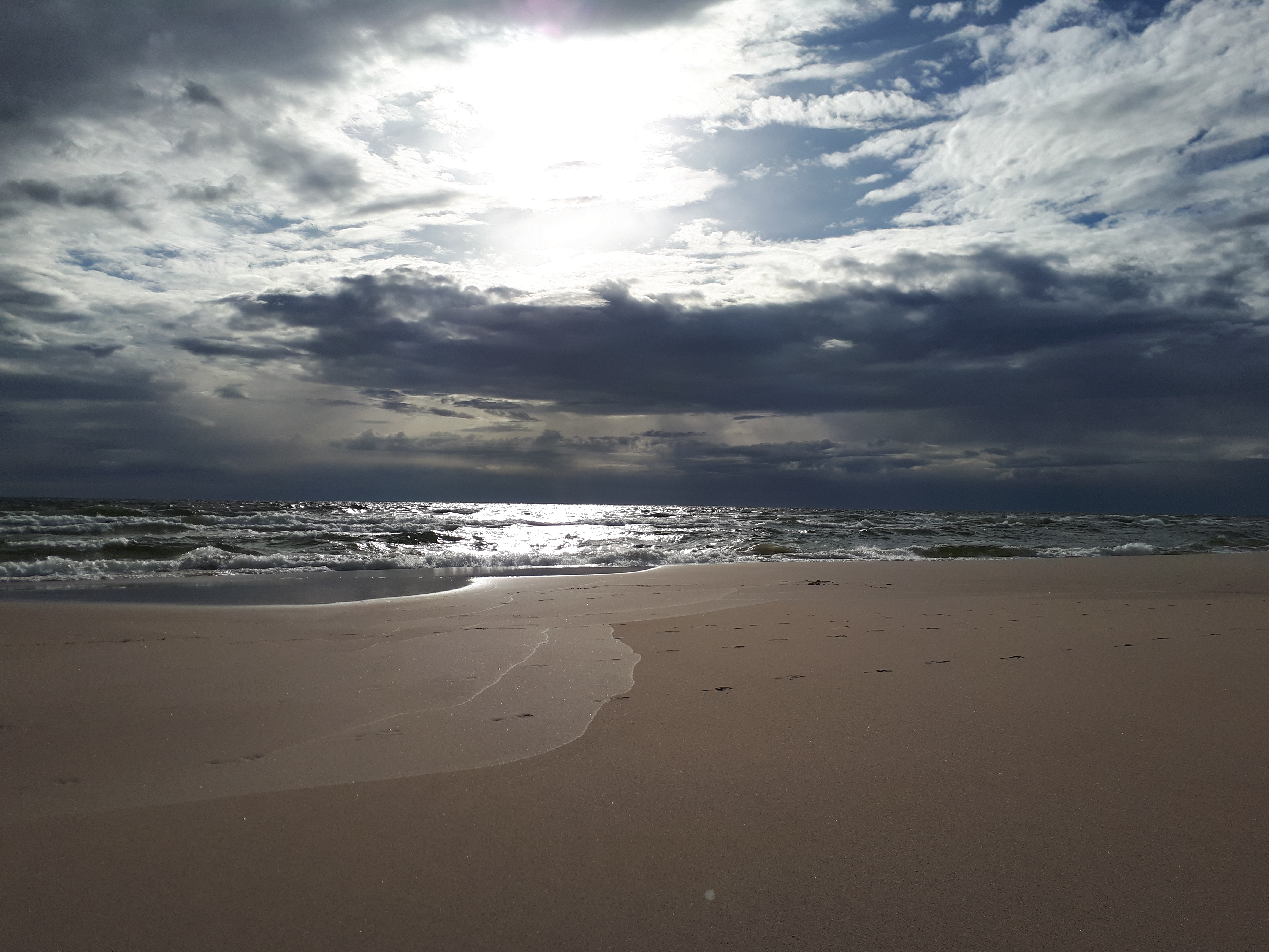 West beach on Gotska Sandön. Gostska Sandön is a remote island in the Baltic Sea with long beaches and an unique nature as the entire island is made up of shifting sands. Only a limited amount of people are allowed at a time which give you the unique experience of being alone on a lovely beach. We go there every year for a few days to start the summer: very relaxing.